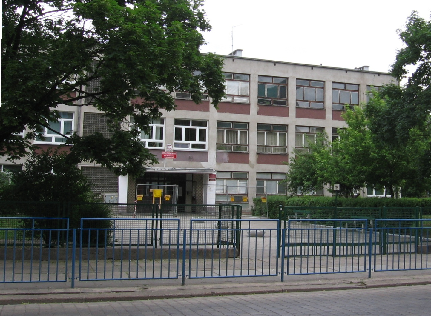 typical primary school in Wrocław, Poland built in 60's